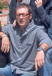 Cast of Spanish TV show Buenafuente.